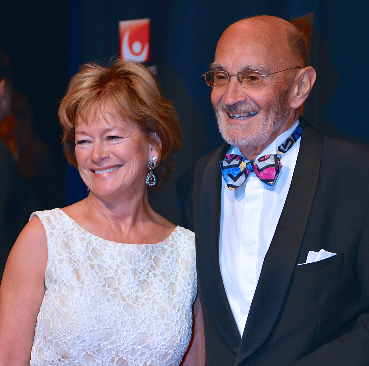 Lena Adelsohn Liljeroth and Ulf Adelsohn at the Swedish Sports Gala at the Ericsson Globe in Stockholm, January13, 2014.